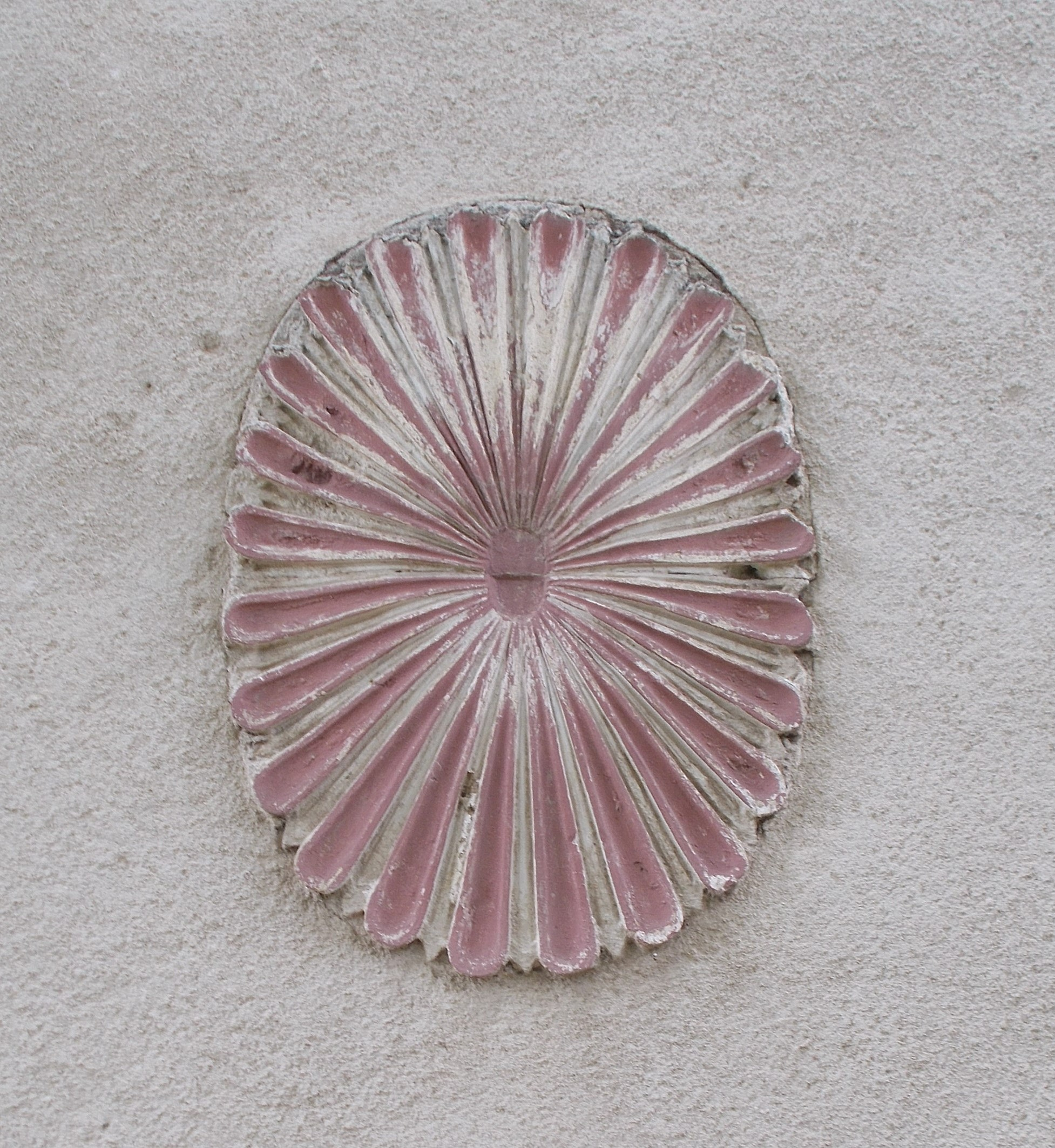 School building facade detail, flower? coloured shaped stucco. Former collier? school (vocational school) built in 1952 and 1953? planned by Pál Németh and Gyula Tálos, now Tatabánya Vocational Training Center Loránd Eötvös High School and Secondary School and Bálint Bakfark Elementary Art School. - 2 Asztalos János street, Oroszlány, Komárom-Esztergom County.